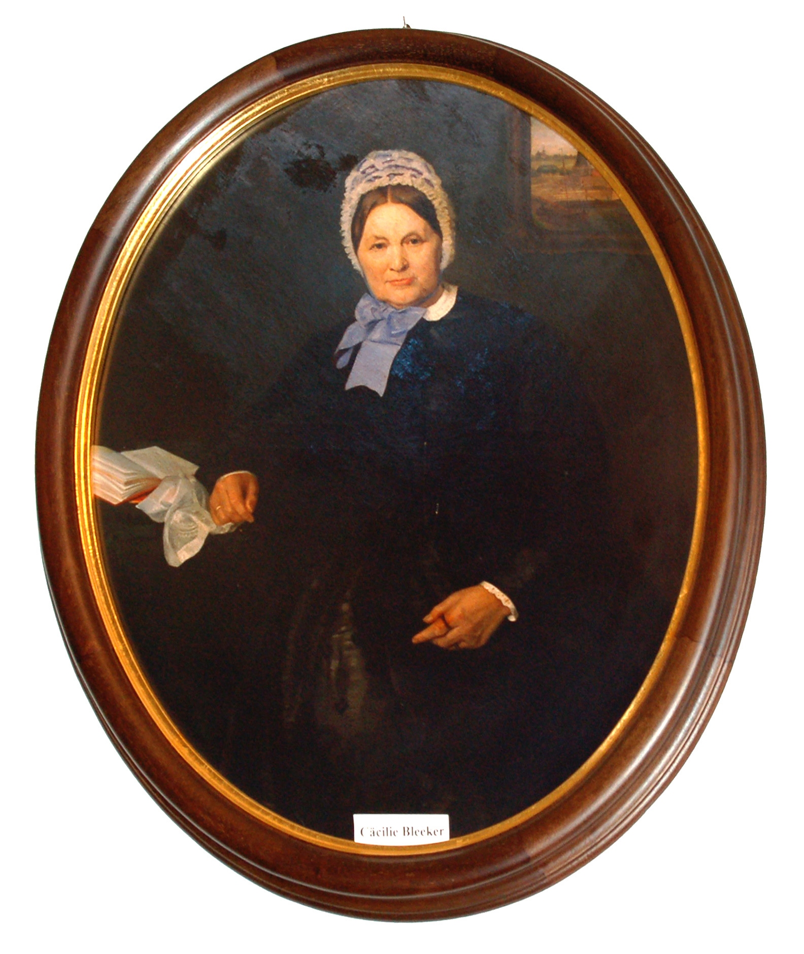 Portrait of Cäcilie Bleeker (1798-1888)